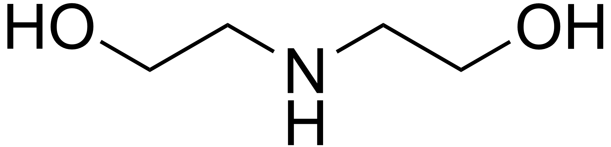 chemical structure of diethanolamine